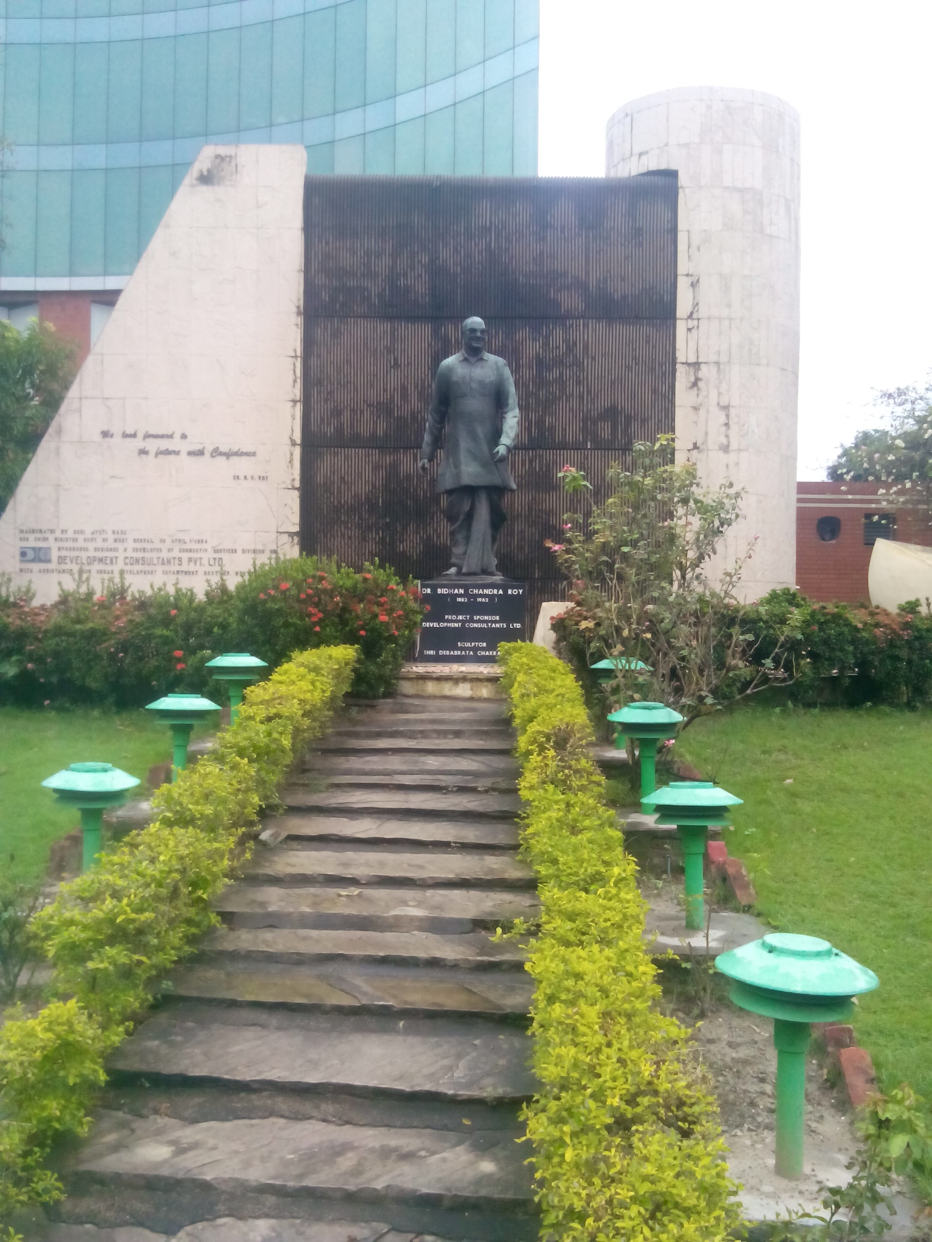 Dr. Bidhan Chandra Roy statue in saltlake